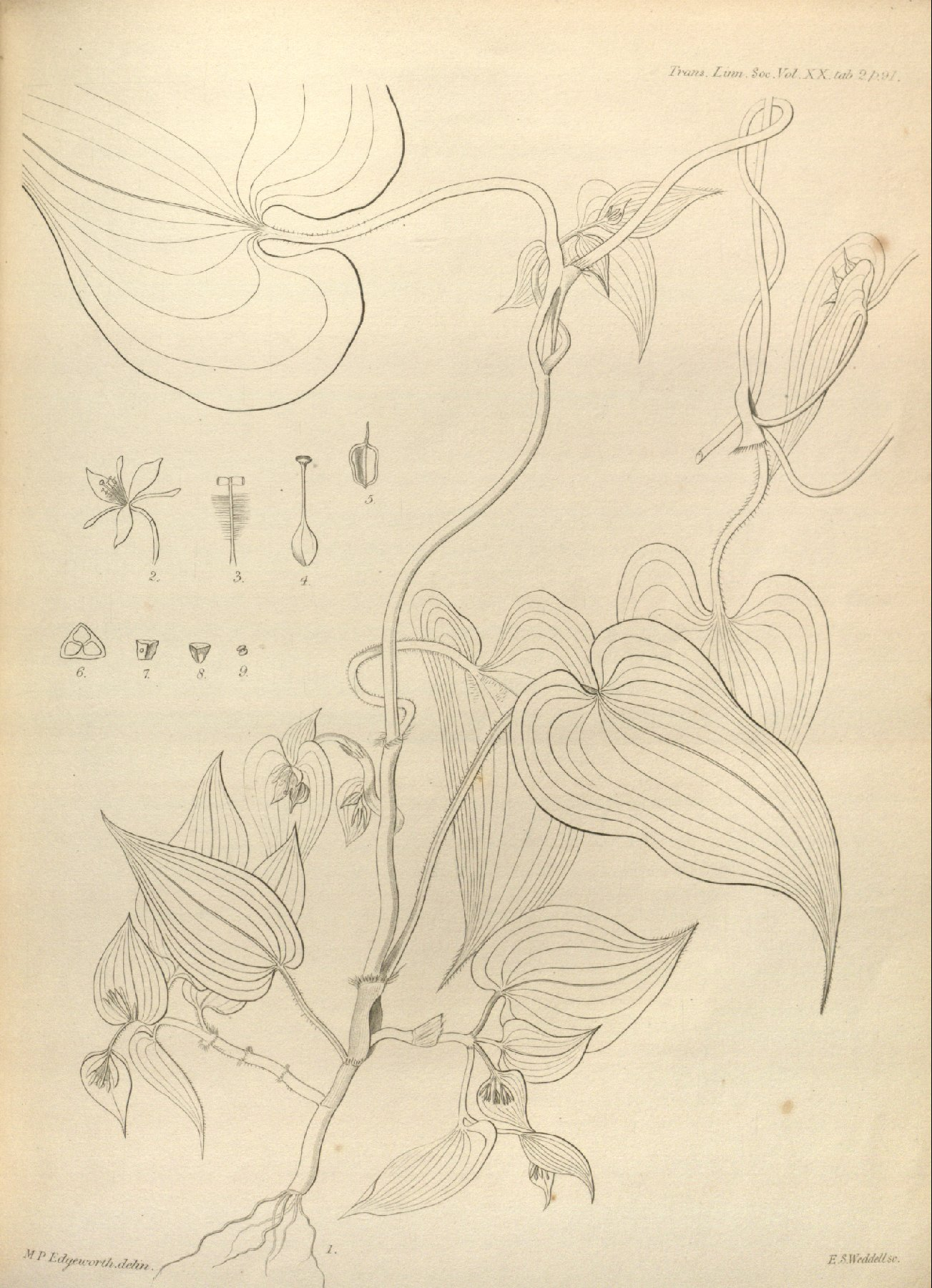 Botanical illustration of Streptolirion volubile published with a description of the genus